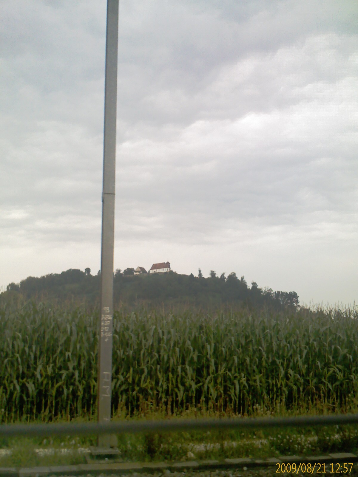 Church of Staufen on the top of the Staufenberg, canton of Aargau, SwitzerlandEsperanto: Preĝejo de Staufen sur la pinto de la monto de Staufen, Kantono Argovio, Svislando